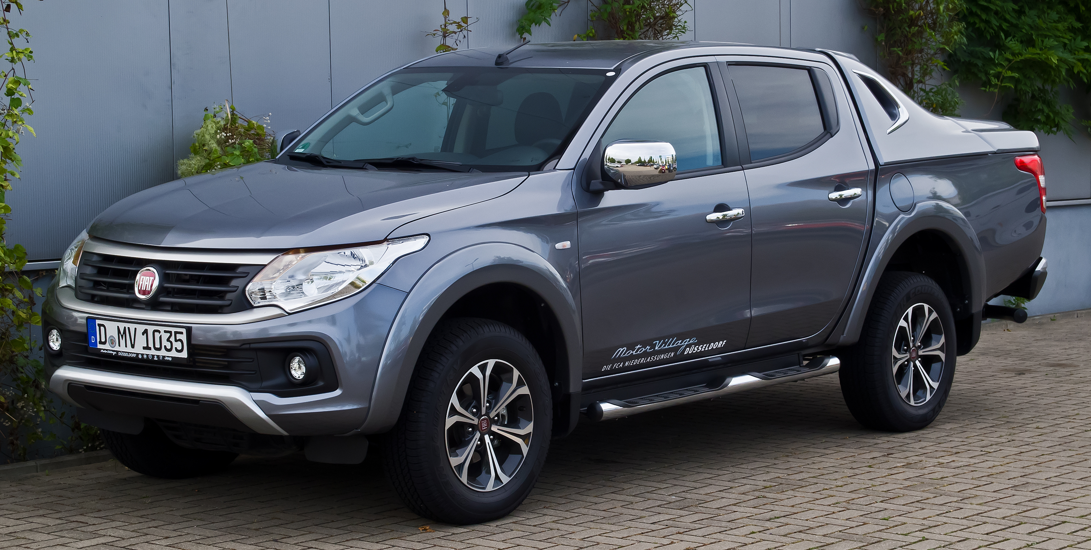 Fiat Fullback Double Cab LX Launch Edition 2.4 Multijet 180 4WD